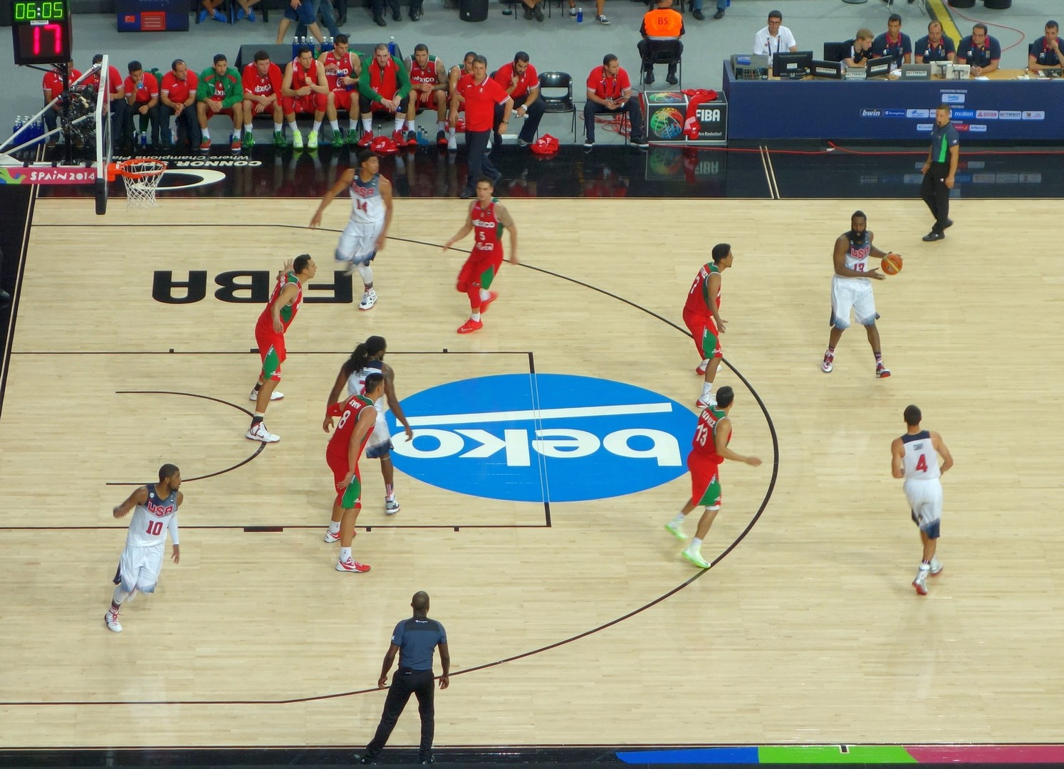 Round of 16 match USA v Mexico (86:63), 6 September in Barcelona